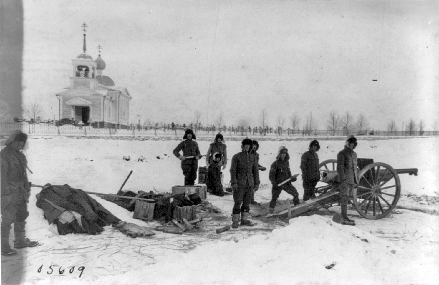 75 Gun Crew of 3rd Platoon, 339th Inf., American Troops, North Russian Expedionary Force, Russia